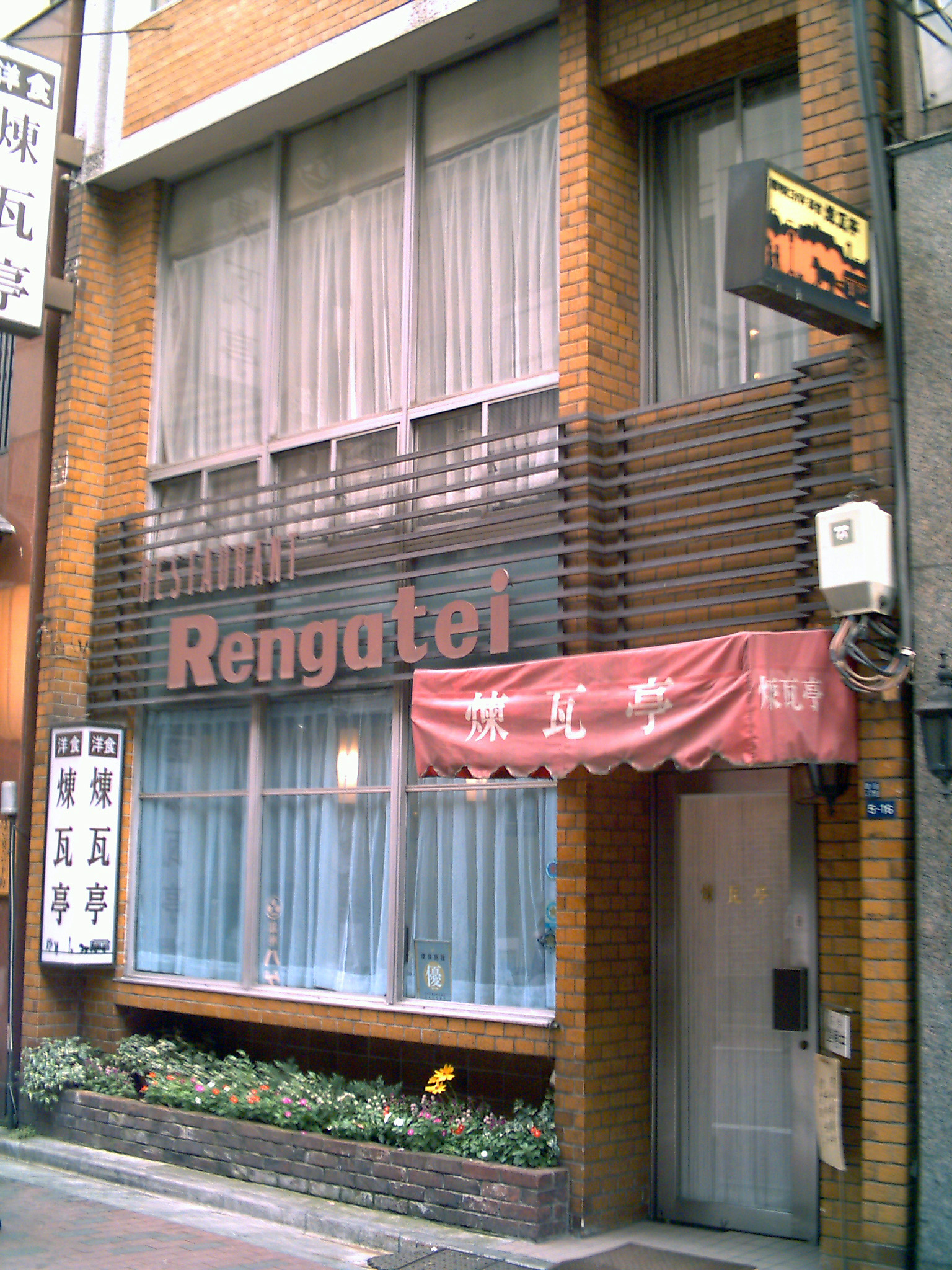 Ginza_Restaurant__Renga_tei_japan photography day, 2006.9.16. photography person kici